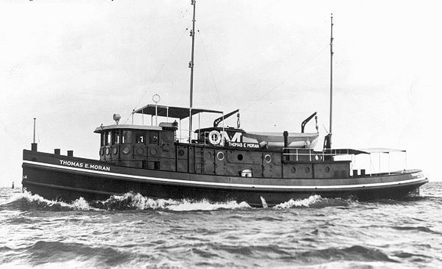 Commercial tug tug William J. Moran sometime between 1938 and 1940, prior to her 1941-1947 United States Navy service as USS Wapasha (YN-45), later YNT-13, later YTB-737